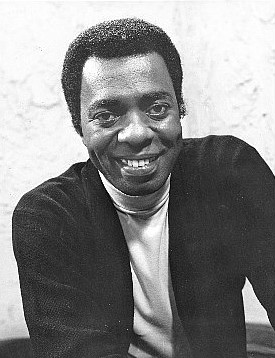 Publicity photo of Lincoln Kilpatrick from the daytime drama Love of Life.